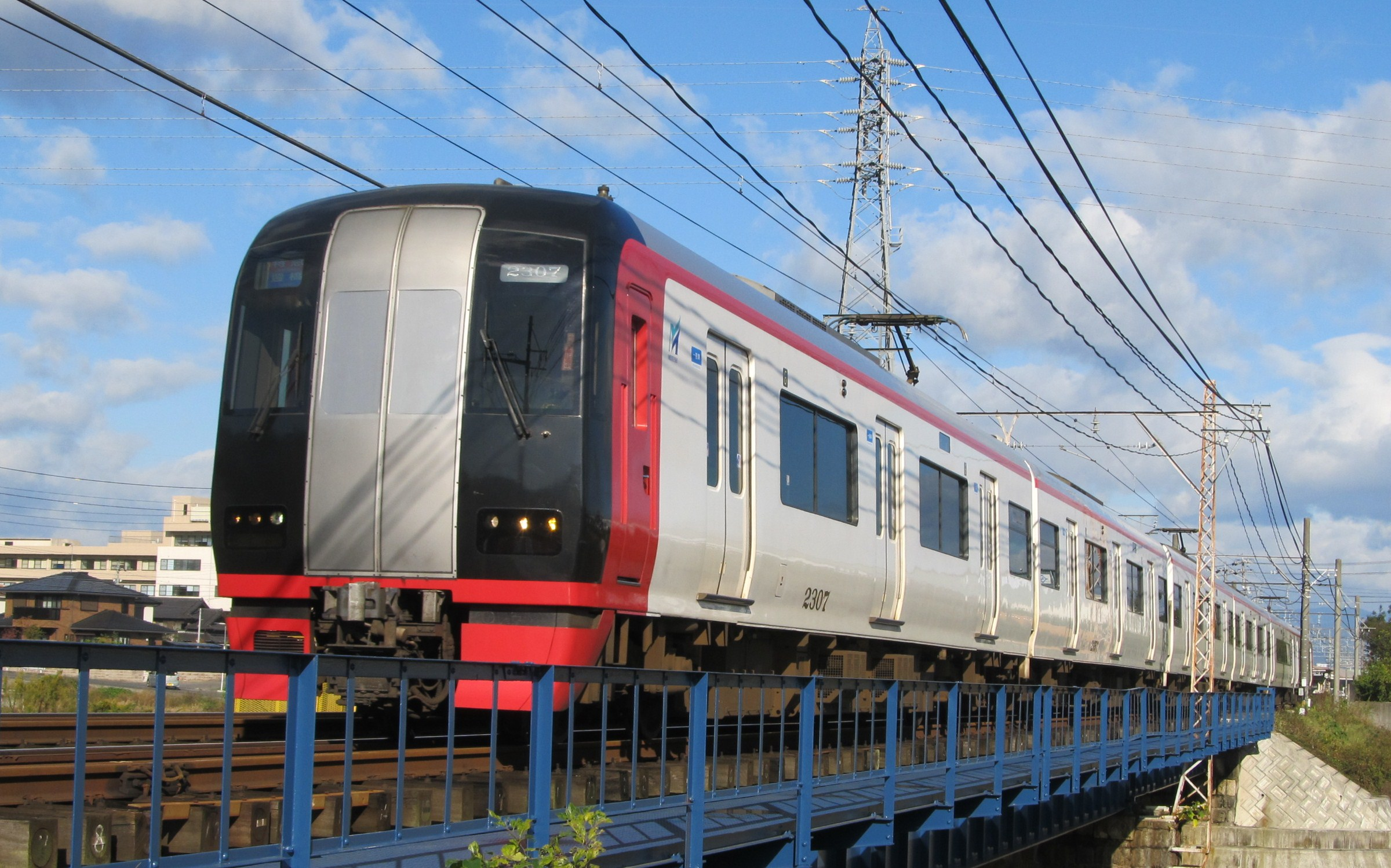 Meitetsu 2200 series. Limited Express bound for Toyohashi. In Hiromi Line.